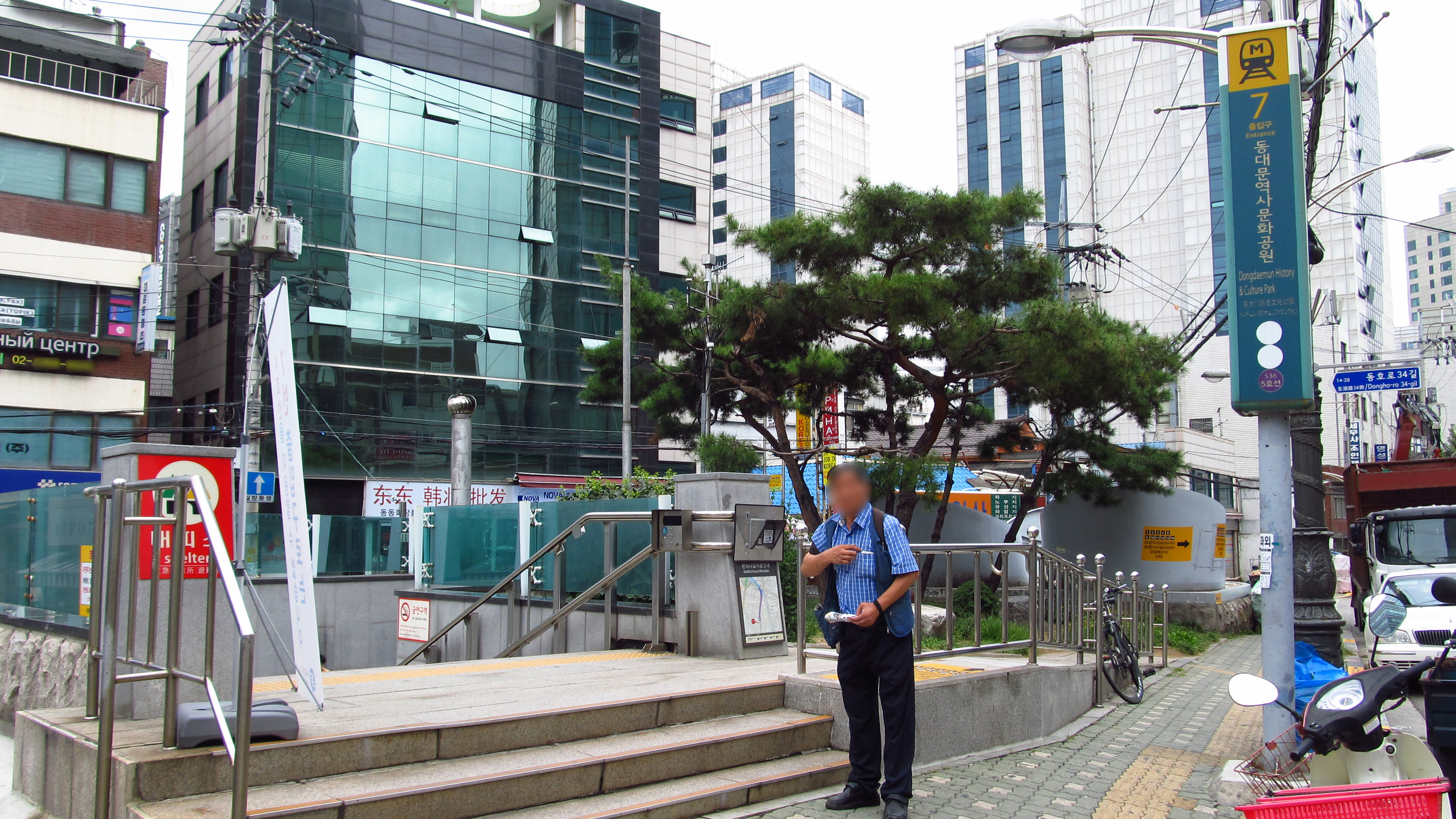 The no.7 entrance to Dongdaemun History & Culture Park Station on the Seoul Metro Line 5 in Jung-gu, Seoul, Republic of Korea(South Korea)